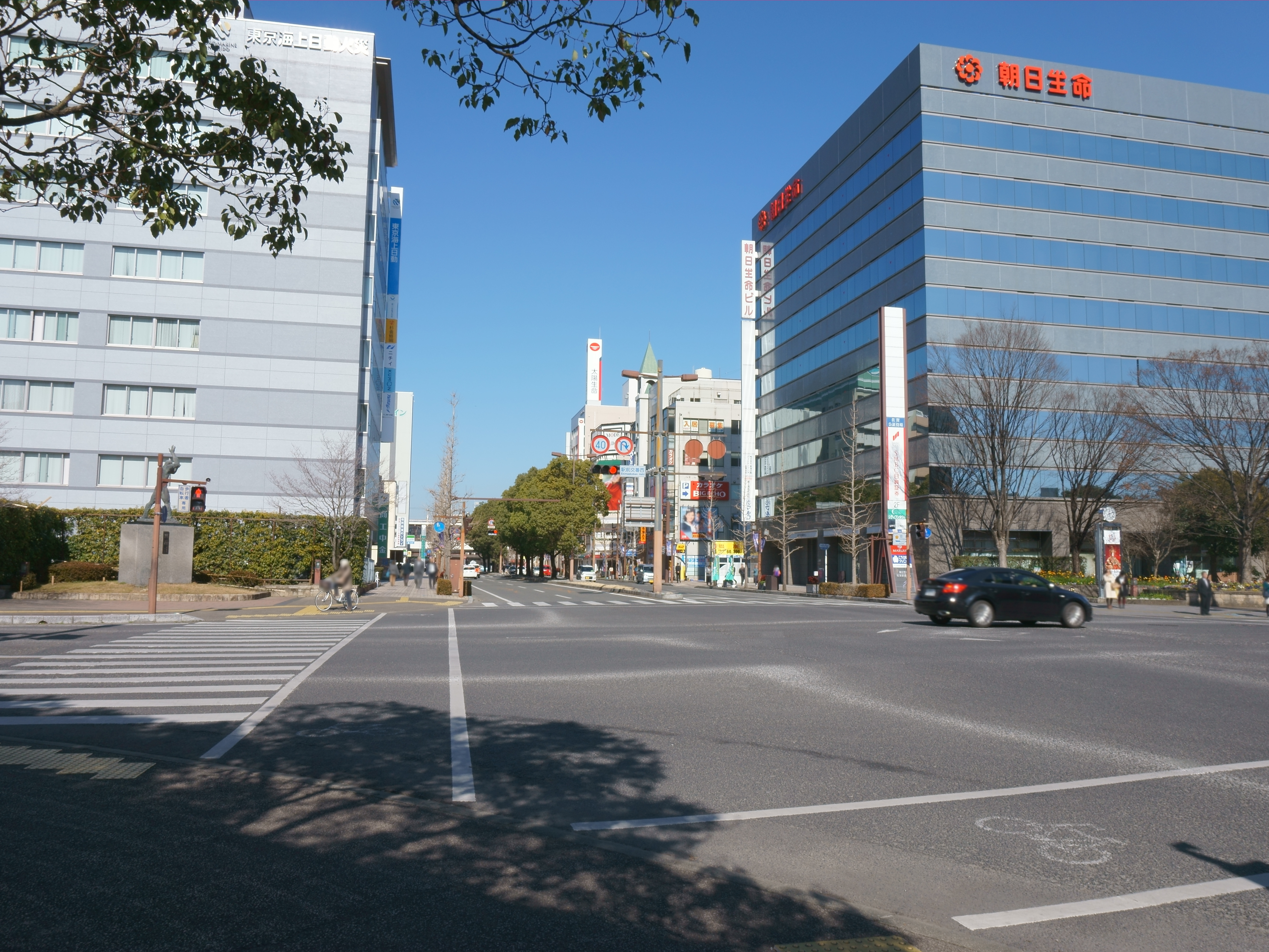 The "Ekimae-kōban Nishi" intersection in Ekiminamihonmachi, Saga city.